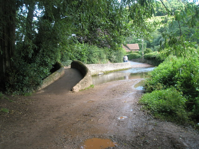 View from southern end of Gallox Bridge back towards Park Street